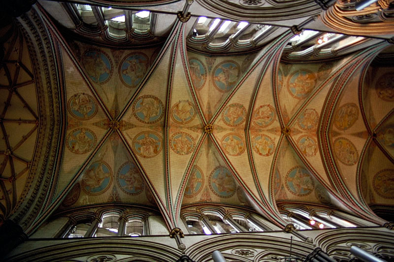 Roof of Salisbury Cathedral, Salisbury, U.K. (inside view)